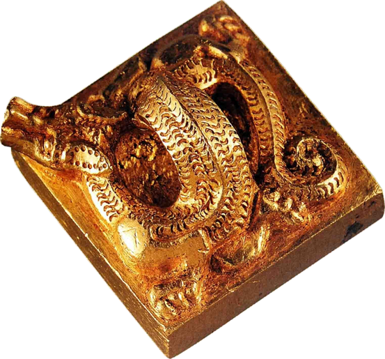 Chinese long (dragon) knob of the King of Nanyue imperial seal